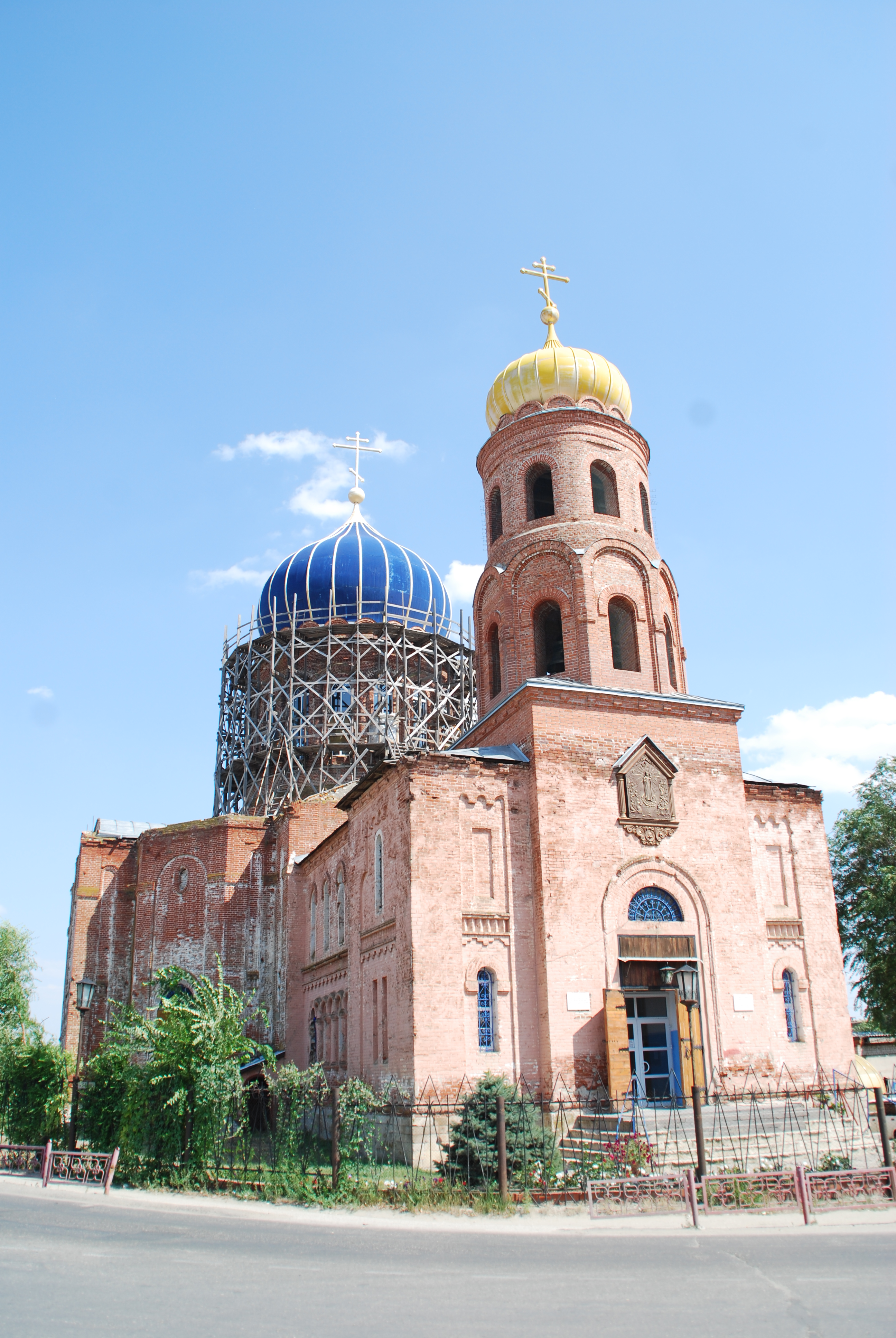 Church of Joy of all who Sorrow (Chram "Vseh skorbyaschich radost'") in Gorodische, Volgograd Oblast, Russia. This church was used as a hospital by German soldiers during the Battle of Stalingrad.